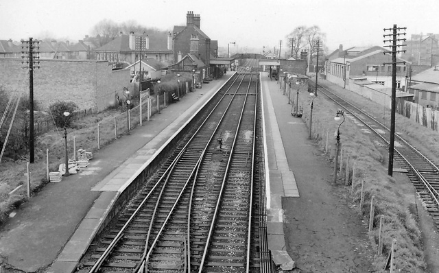 Brimsdown Station. View northward, towards Bishops Stortford and Cambridge; ex-Great Eastern London - Cambridge main line - electrified on this section since 5/69.